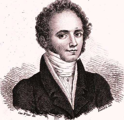 Illustration in Prose by Salvatore Betti published in January, 1827. The illustration is contemporary or previous to the year of publication.